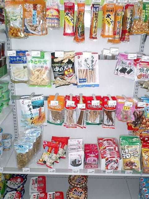 Supermarket in Tokyo, Japan